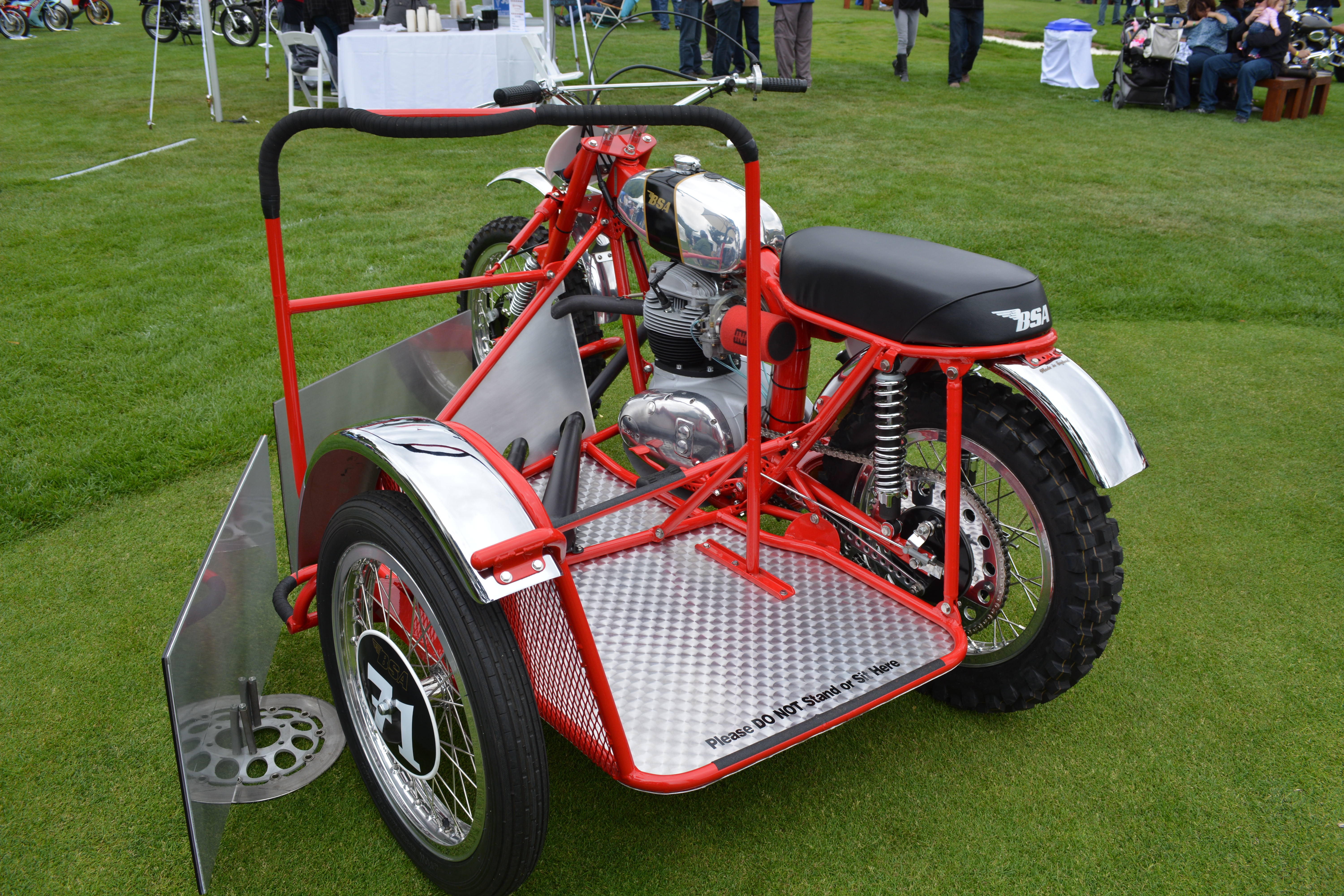 The Quail Motorcycle Gathering 2015, Carmel by the Sea, CA